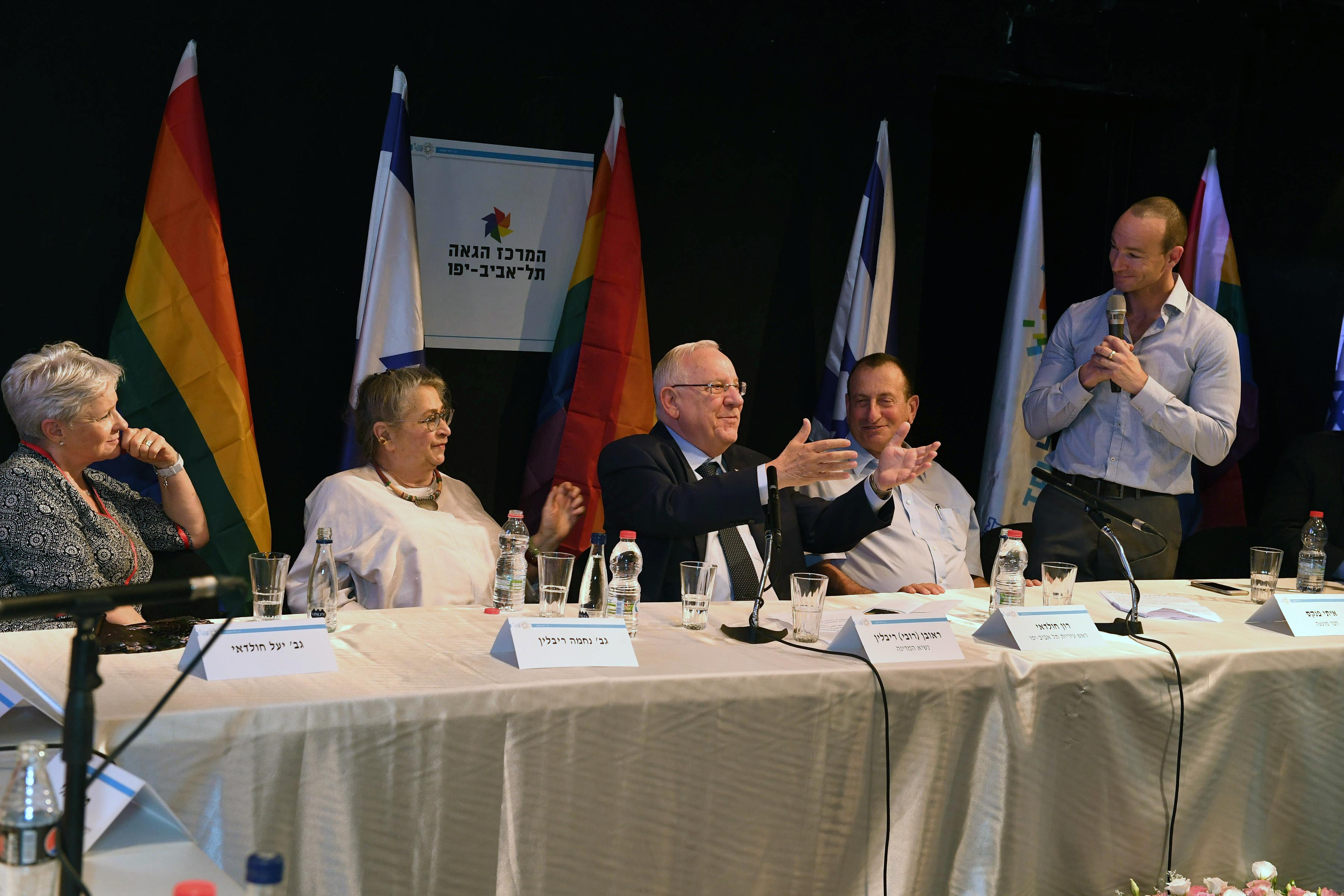 The President of Israel, Reuven Rivlin, and his spouse visiting at the Gay Center in Tel Aviv on the eighth anniversary of the 2009 Tel Aviv gay centre shooting. Thursday, August 10, 2017. Photo Credit: Mark Neyman / GPO.